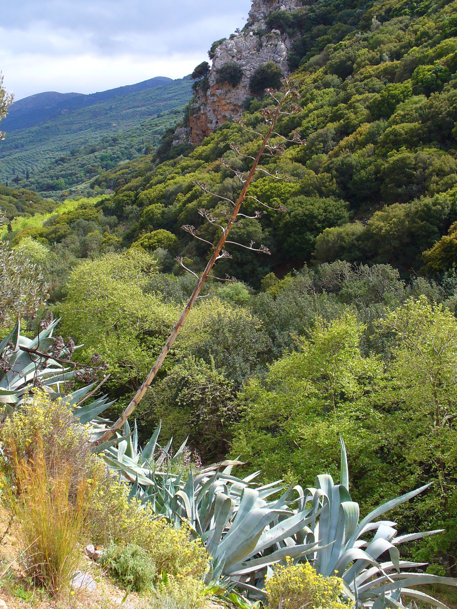 Agave americana, Agavaceae, Century Plant, Maguey, habitus. Potamies, Crete, Greece.